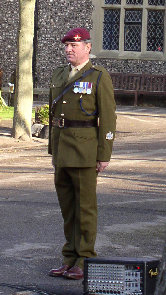 A Regimental Sergeant Major of the Parachute Regiment on parade in British Army No.2 Dress Uniform, Tony Tighe is pictured, here as the RSM of Brighton College